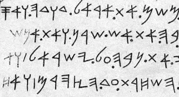 This is a detail (derivative work) that I excerpted from the preexisting public domain file Mesha Stele already in Wikip.